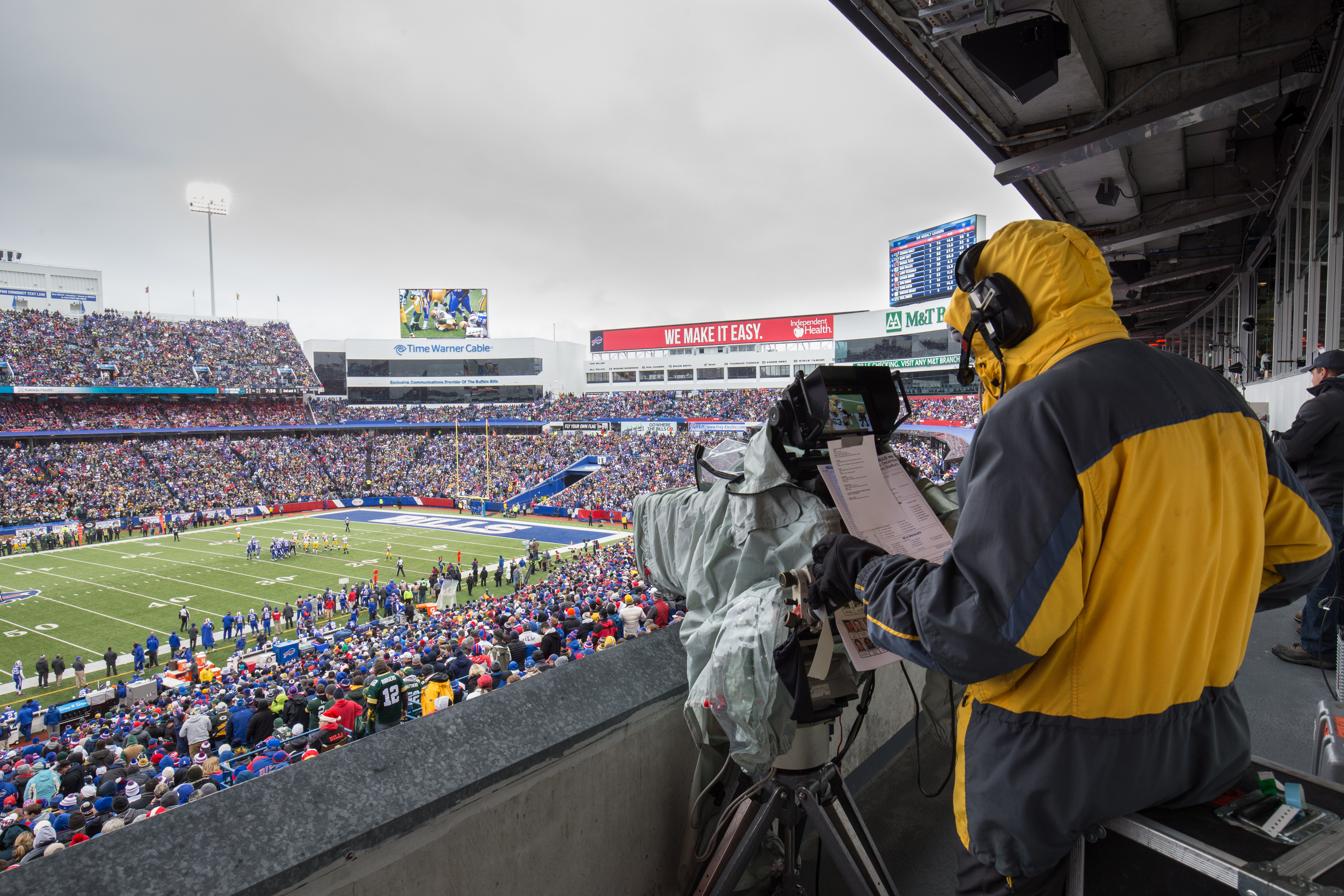 A cameraman shoots a game between the Buffalo Bills and Green Bay Packers.